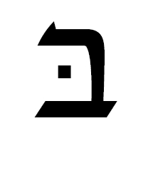 Hebrew dagesh sign